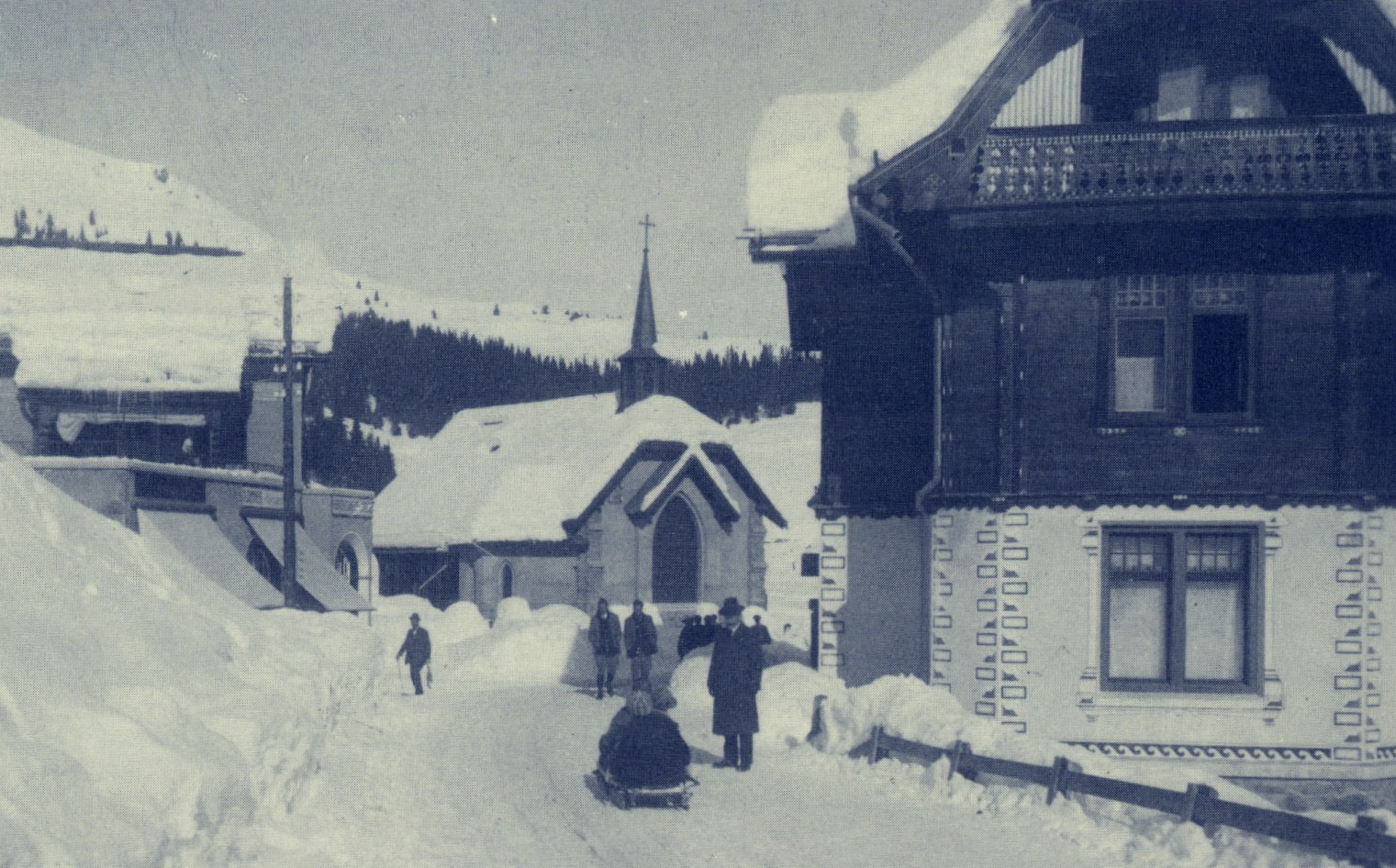 English Church, Arosa/Switzerland, ca. 1920